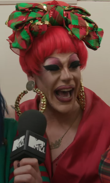 Thorgy Thor interviewed for MTV International in 2018.